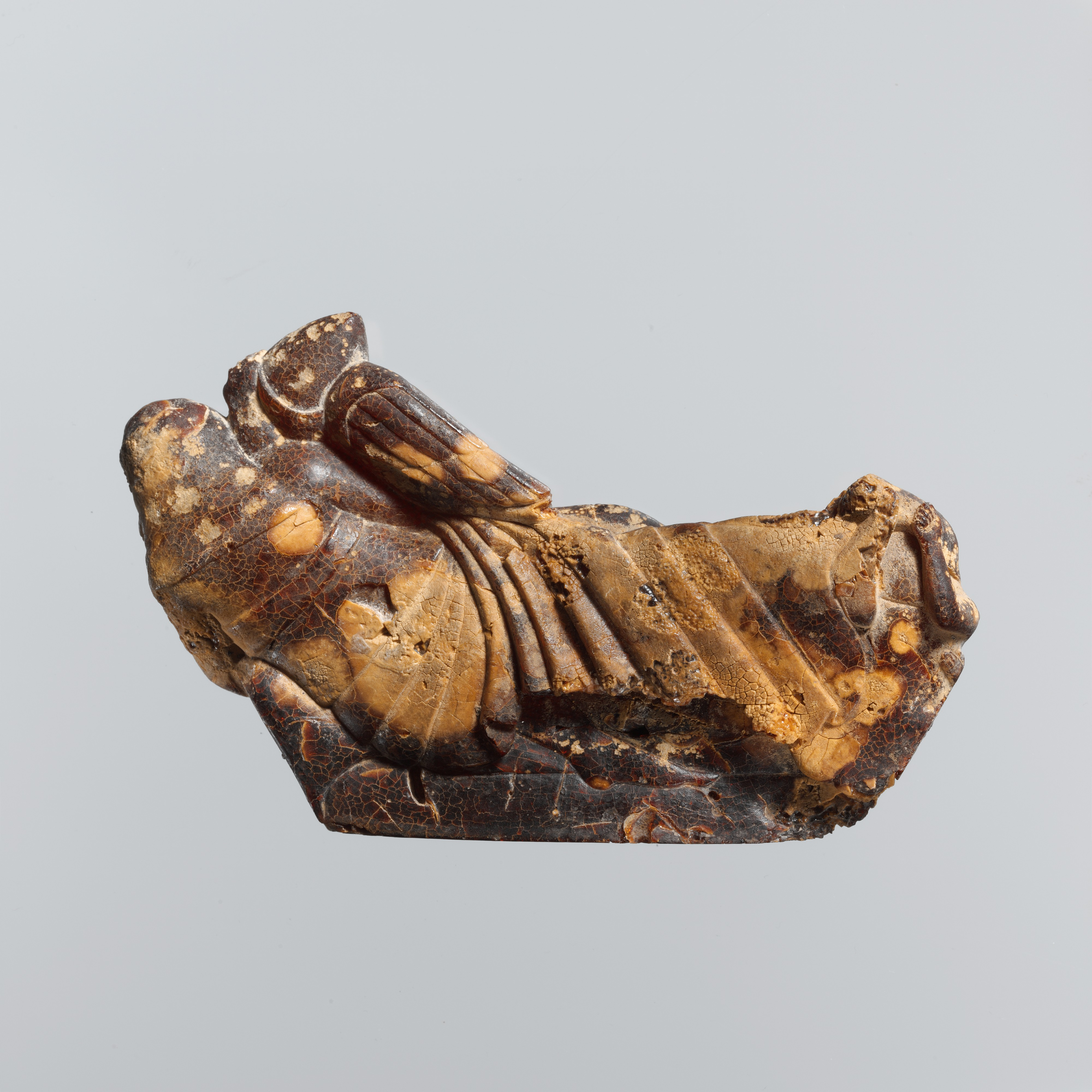 Etruscan; Relief of a woman and youth reclining; Miscellaneous-Amber